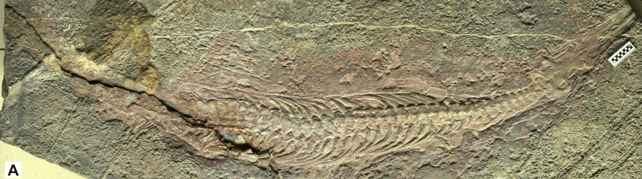 Skeleton of Nanchangosaurus suni Wang, 1959, holotype (GMC V636). Scale bar is 1 cm.